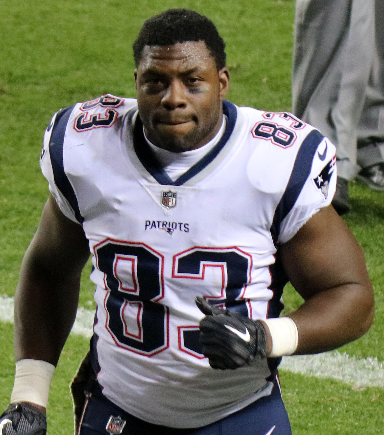 Dwayne Allen, a player on the National Football League.